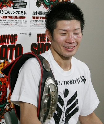 hioki after way of shooto 3